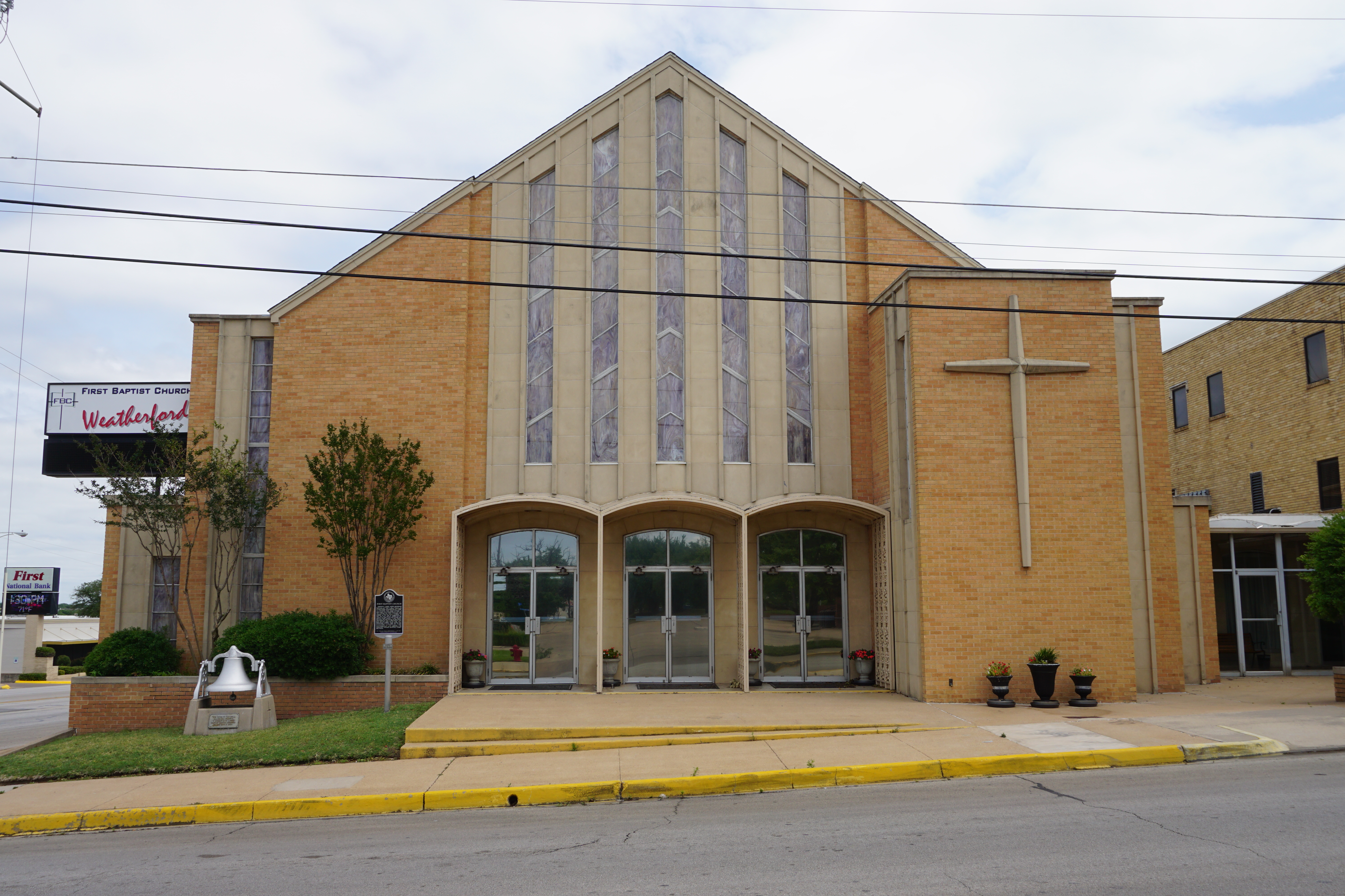 First Baptist Church in Weatherford, Texas (United States).